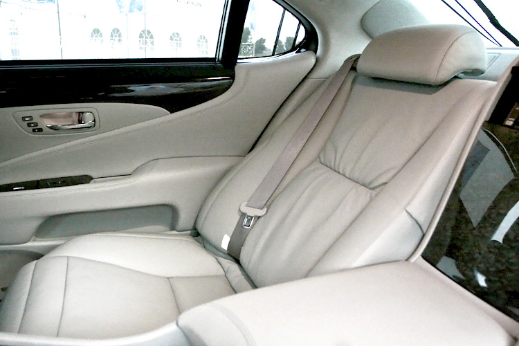 Lexus LS600hL with RX400h * Double "h" * Rear Seat